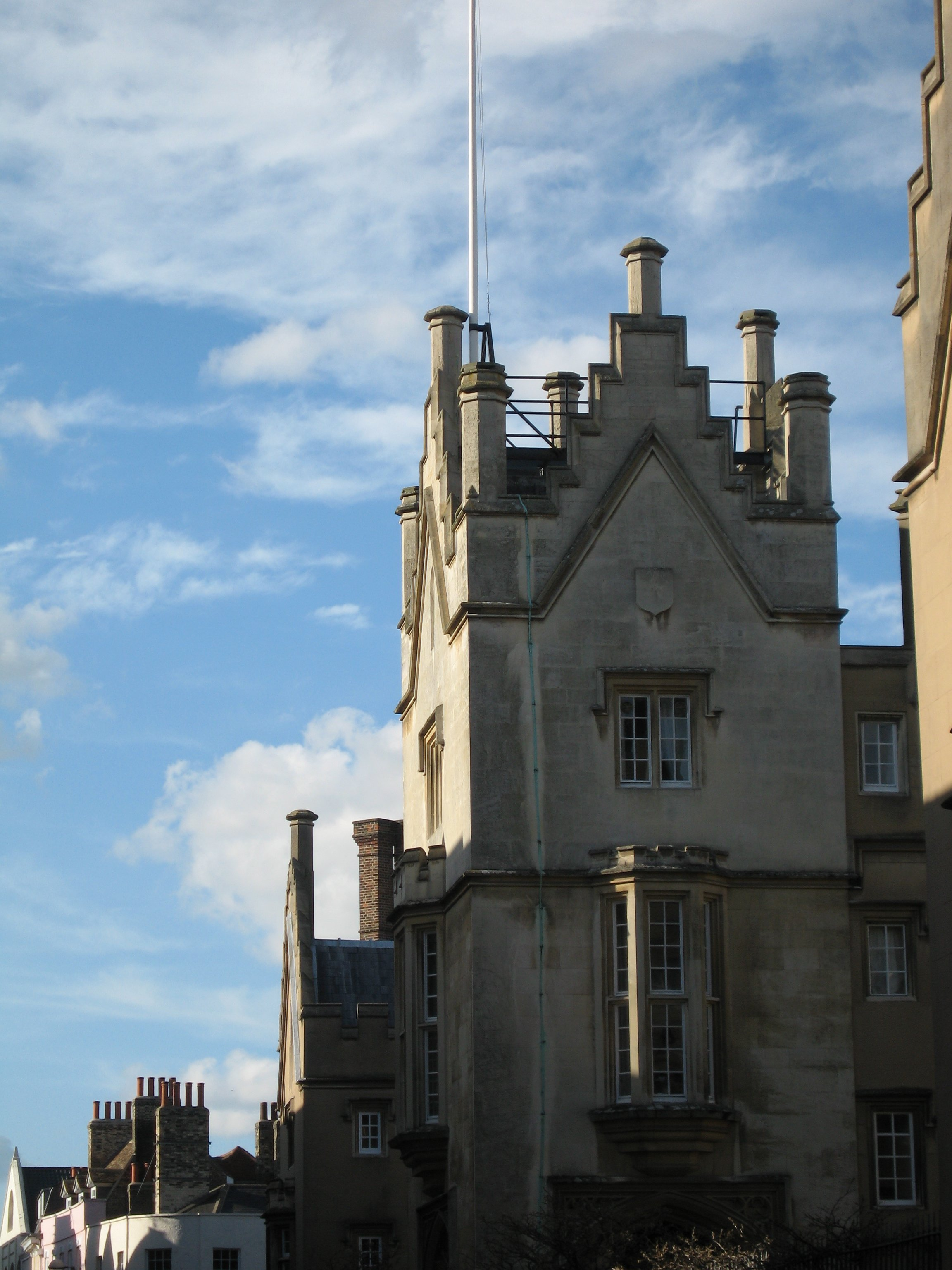 Sidney Sussex College, Cambridge, outside view.